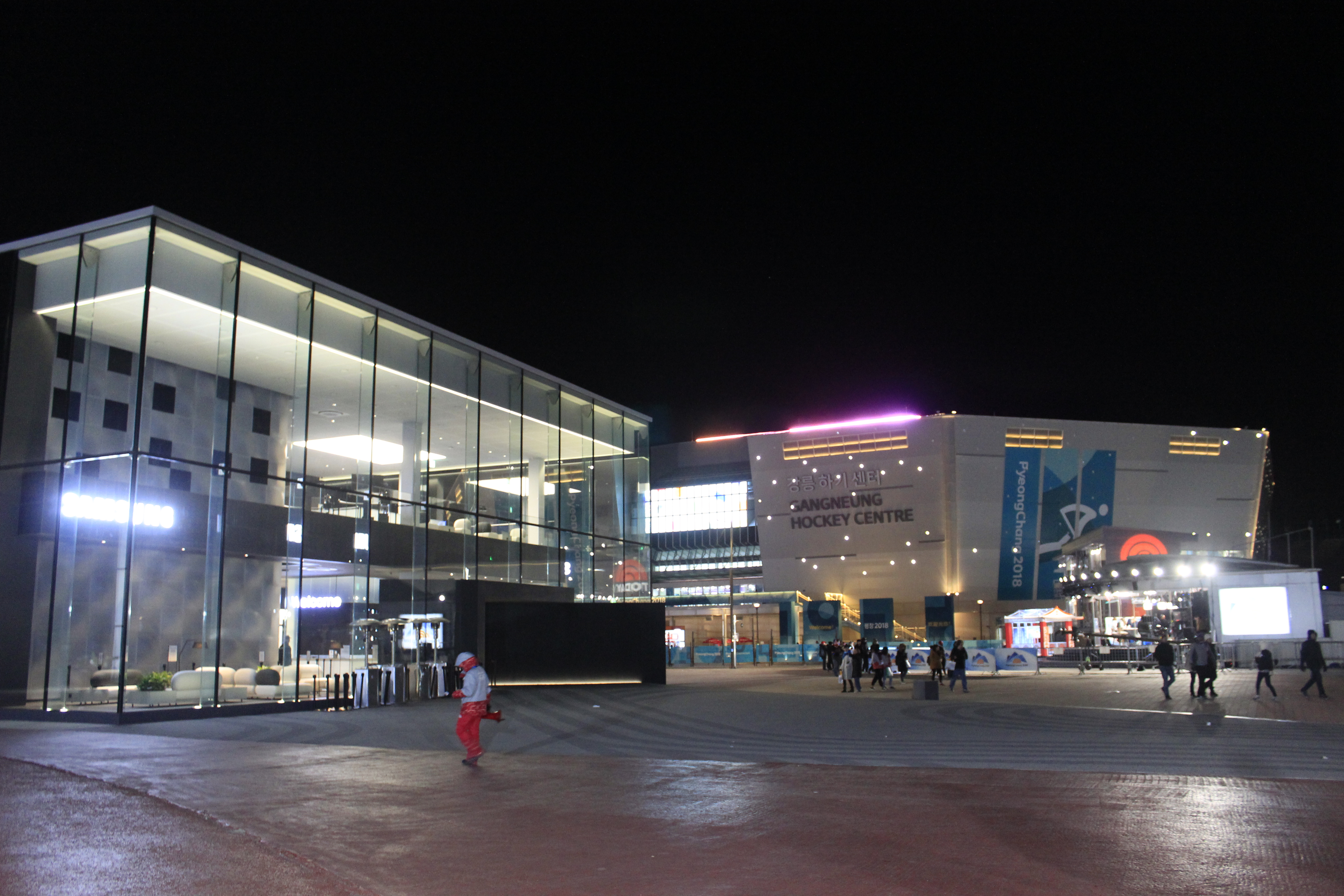 Gangneung Olympic Park